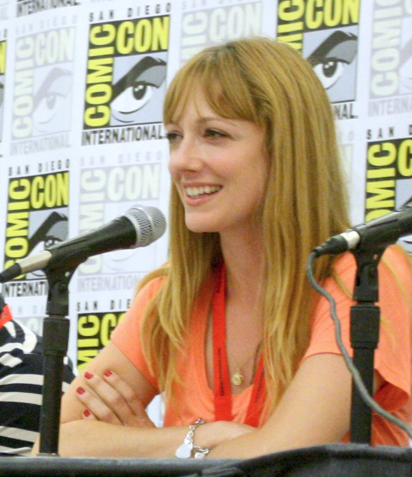 Judy Greer at Comic-Con International in 2010